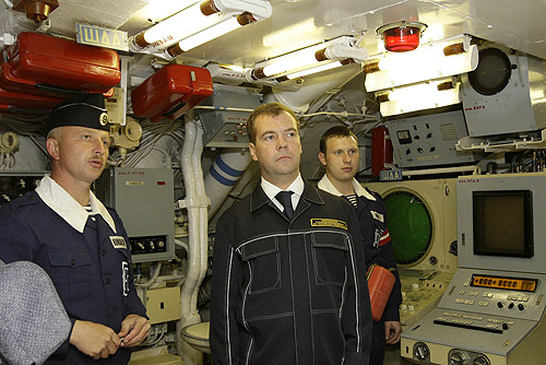 VILYUCHINSK, KAMCHATKA. On the strategic nuclear cruiser submarine St George the Victorious.